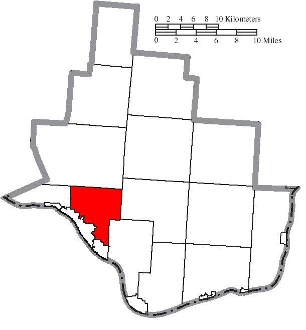 Map of the municipal and township boundaries of Lawrence County, Ohio, United States, as of the 2000 census, with the location of Upper Township highlighted. Township borders are shown only in unincorporated areas in order to differentiate incorporated and unincorporated areas more clearly.